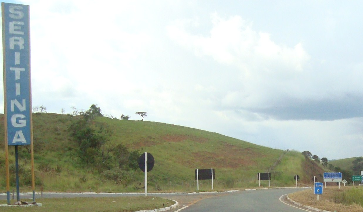 Road AMG-1020 in Carvalhos, Minas Gerais, Brazil